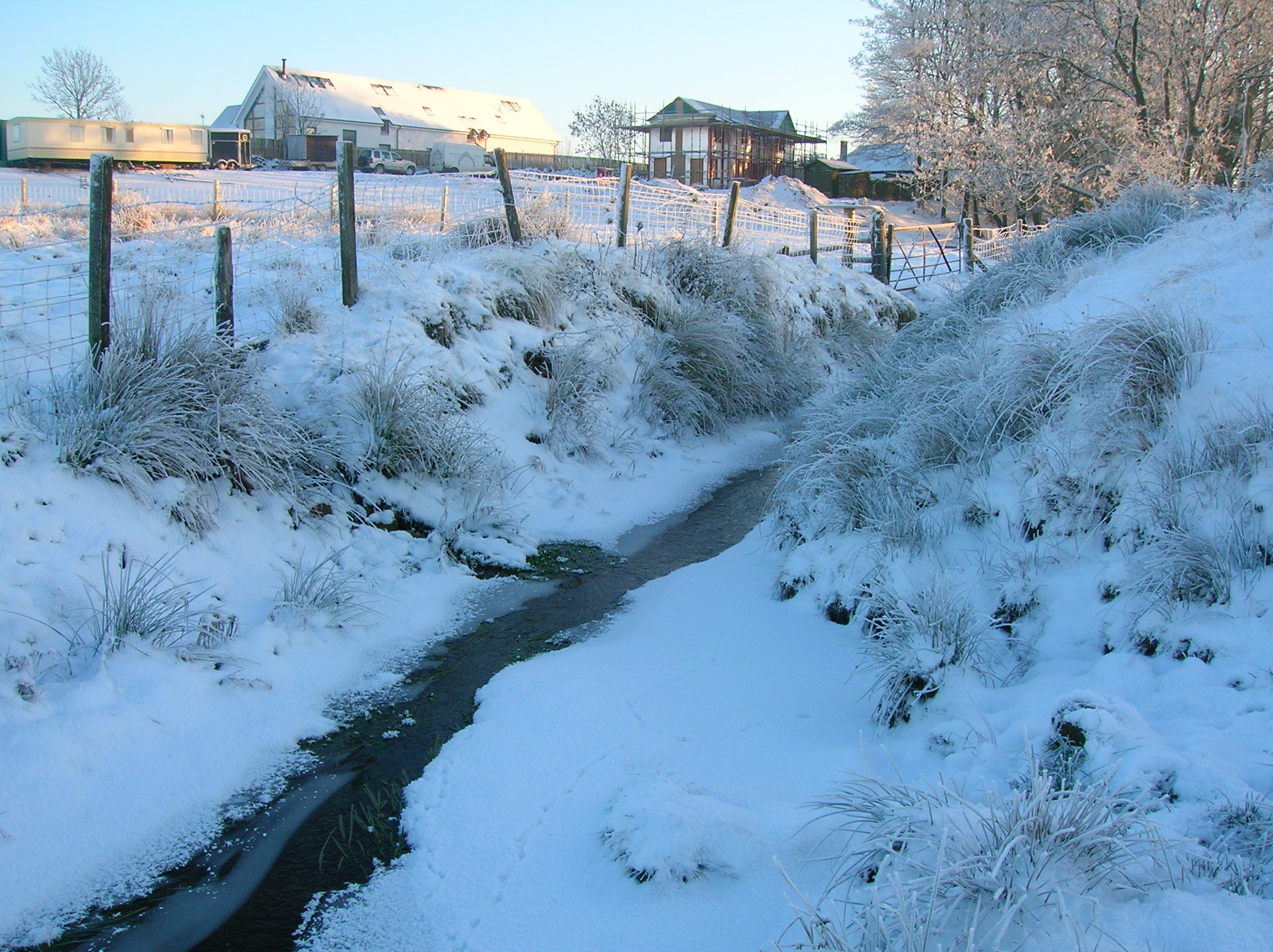 Loch Brand's old dam site with the Boghall Burn exiting. Beith, North Ayrshire, Scotland.